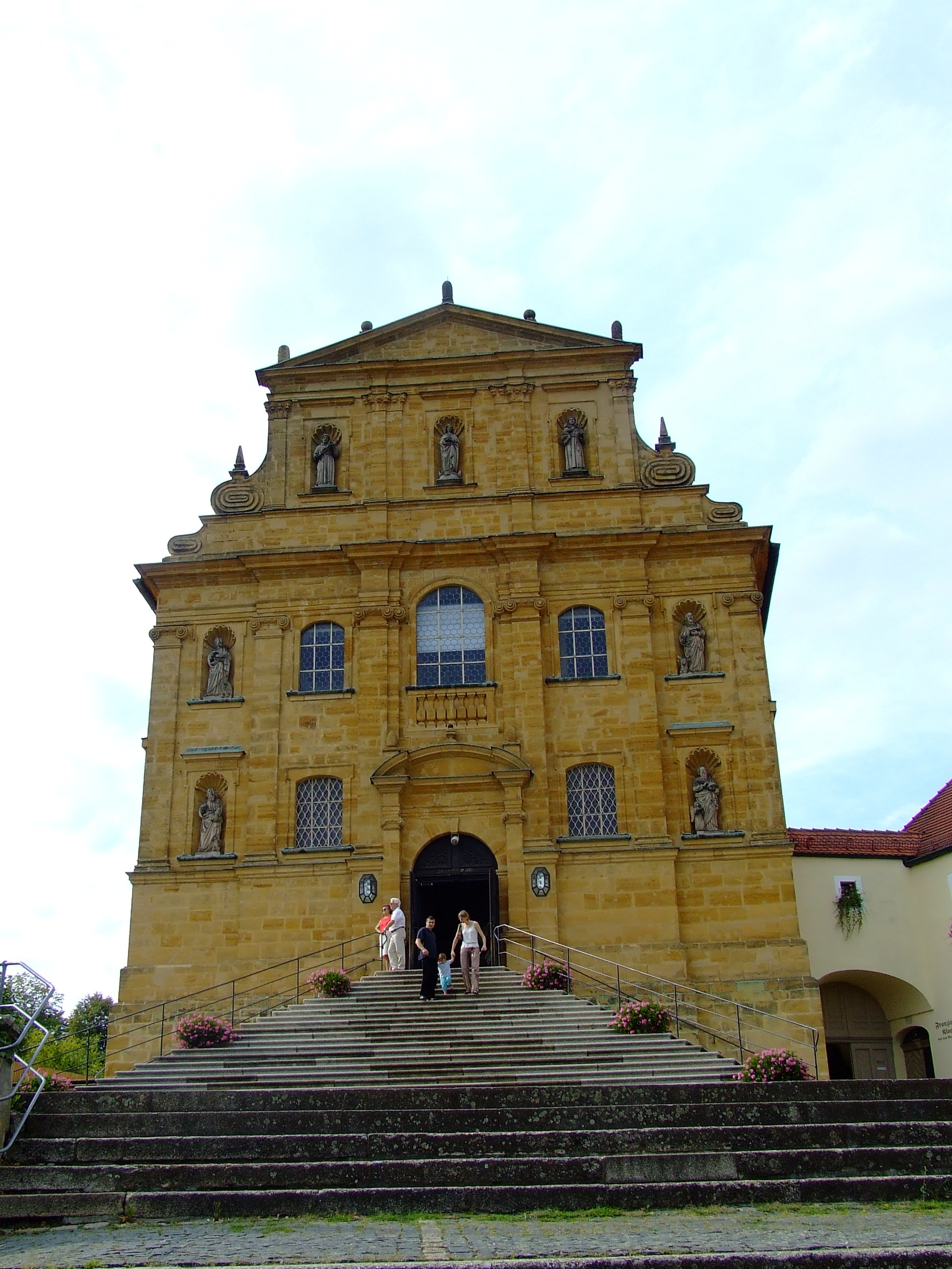 Amberg (Upper Palatinate), south-eastern facade of the Sanctuary of St Mary of Help.